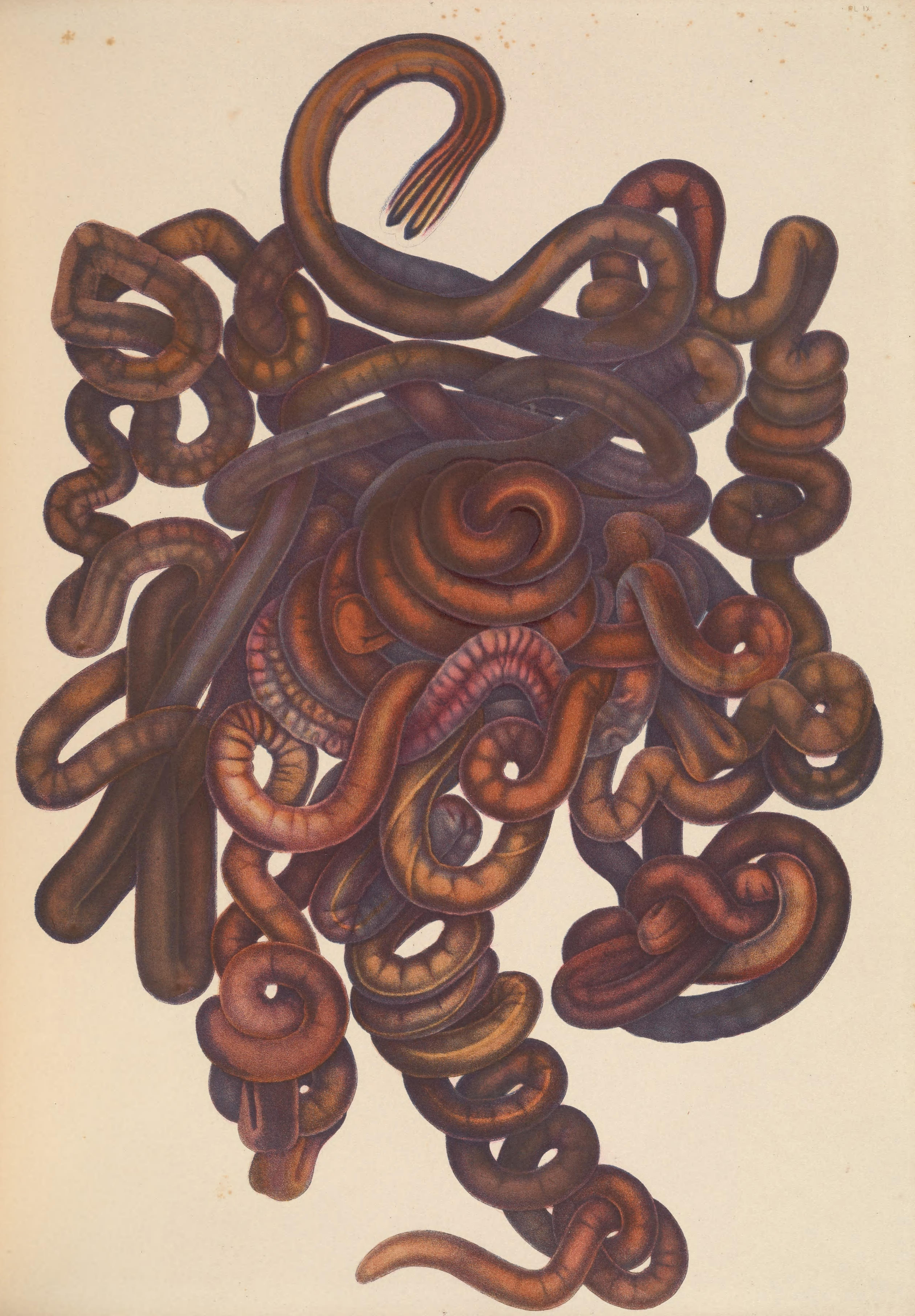 A monograph of the British marine annelids.Plate text Lineus marinus = Lineus longissimus (Gunnerus, 1770)